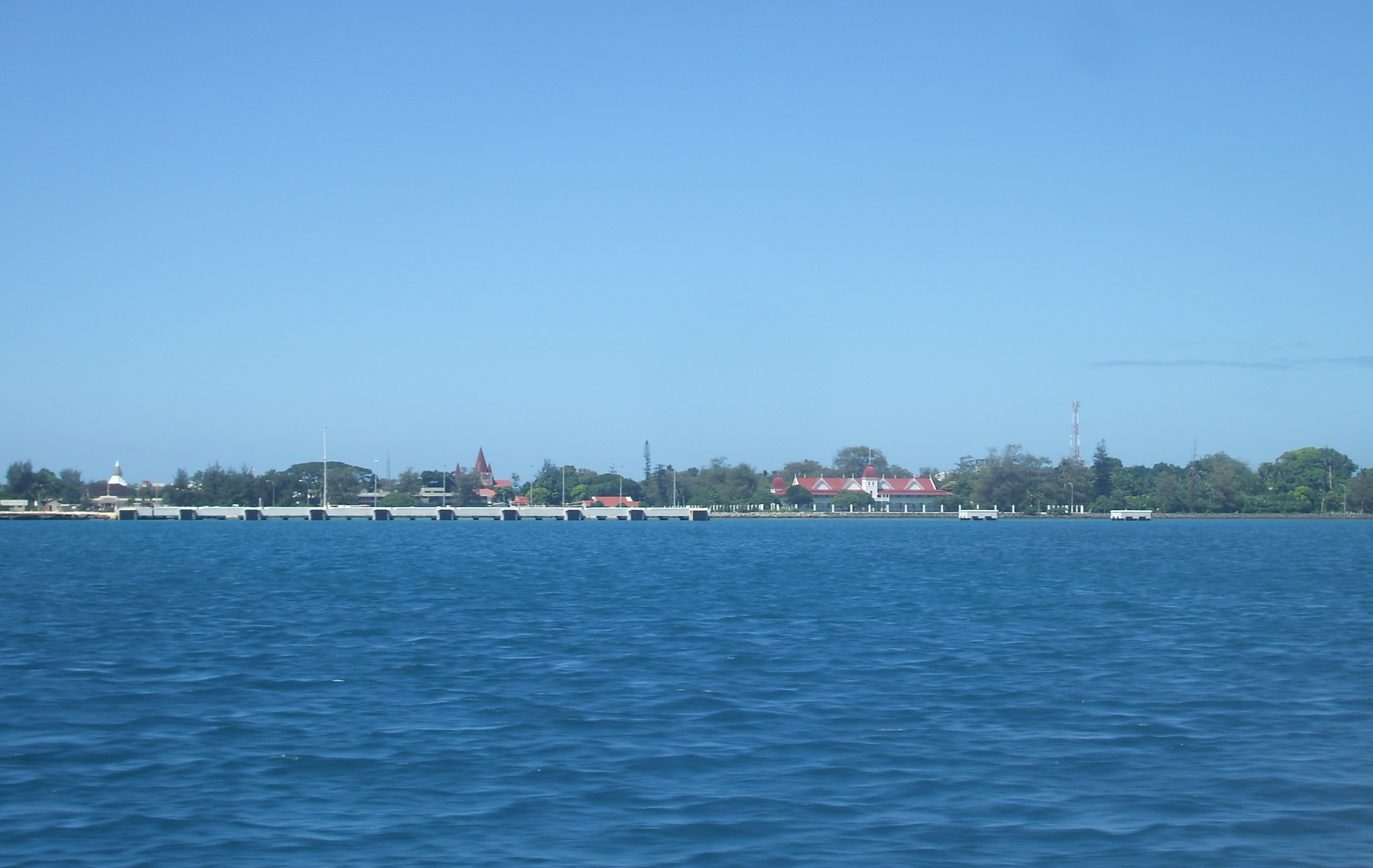 Nuku'alofa Skyline.